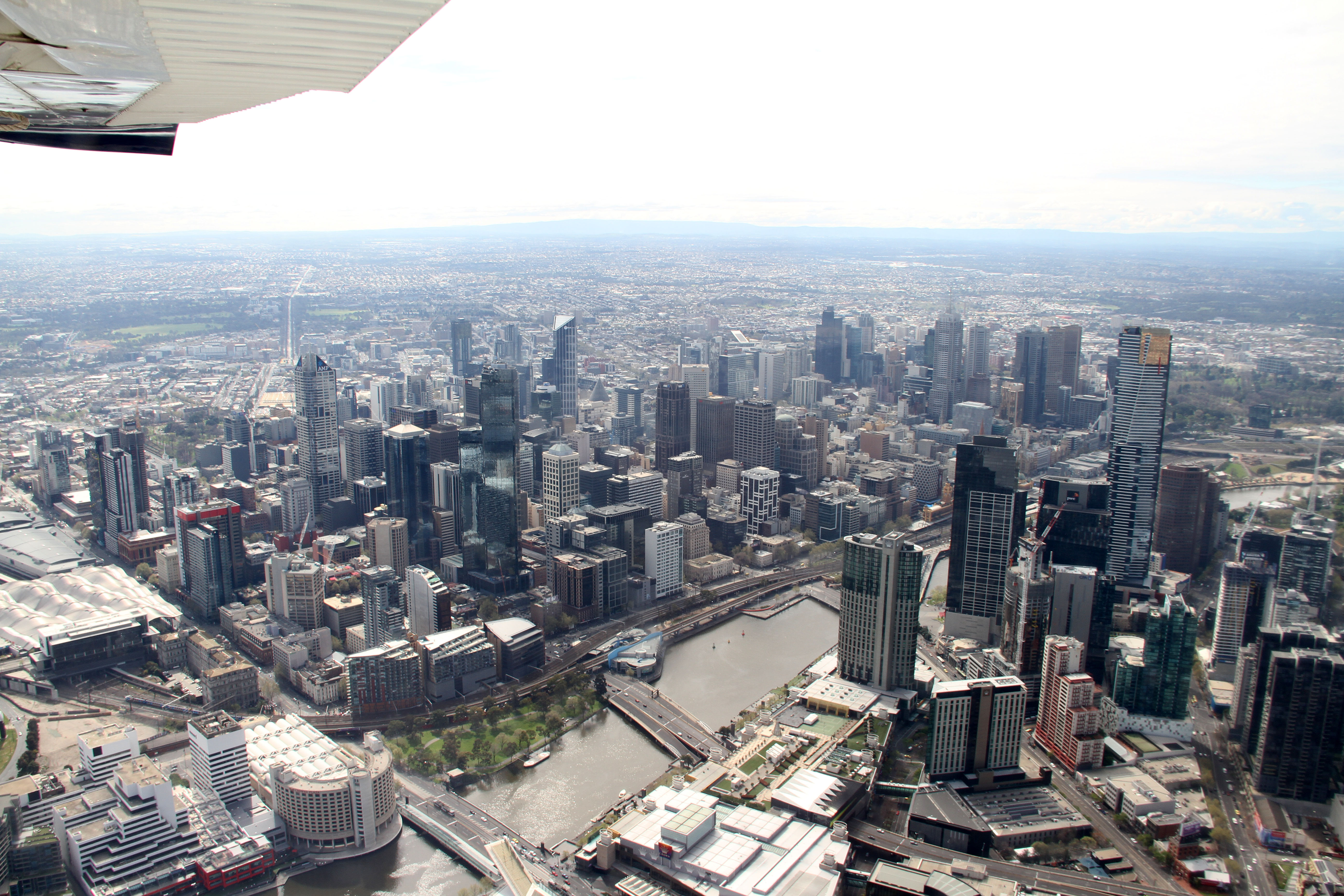 Melbourne with the Yarra river looking north east on 14 September 2013. Taken on a Melbourne Seaplanes flight.